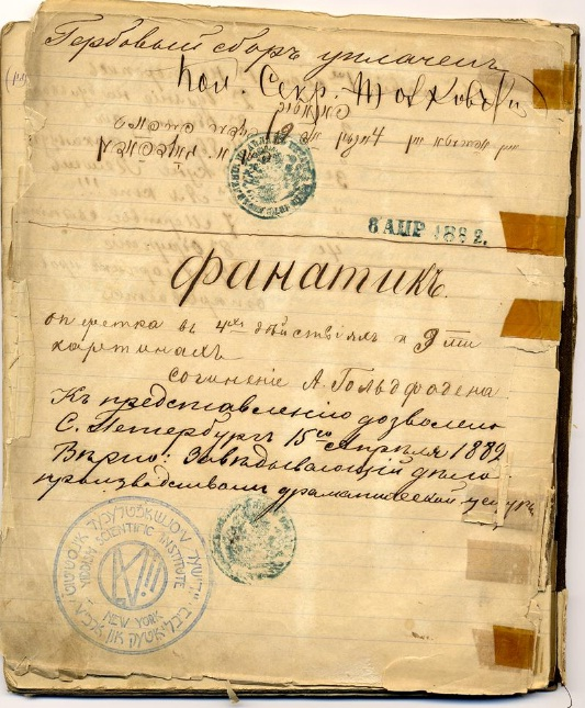 Copy of Yiddish play "Fanatik" writen by A. Goldfadn with censor’s stamp of 8 April 1882.